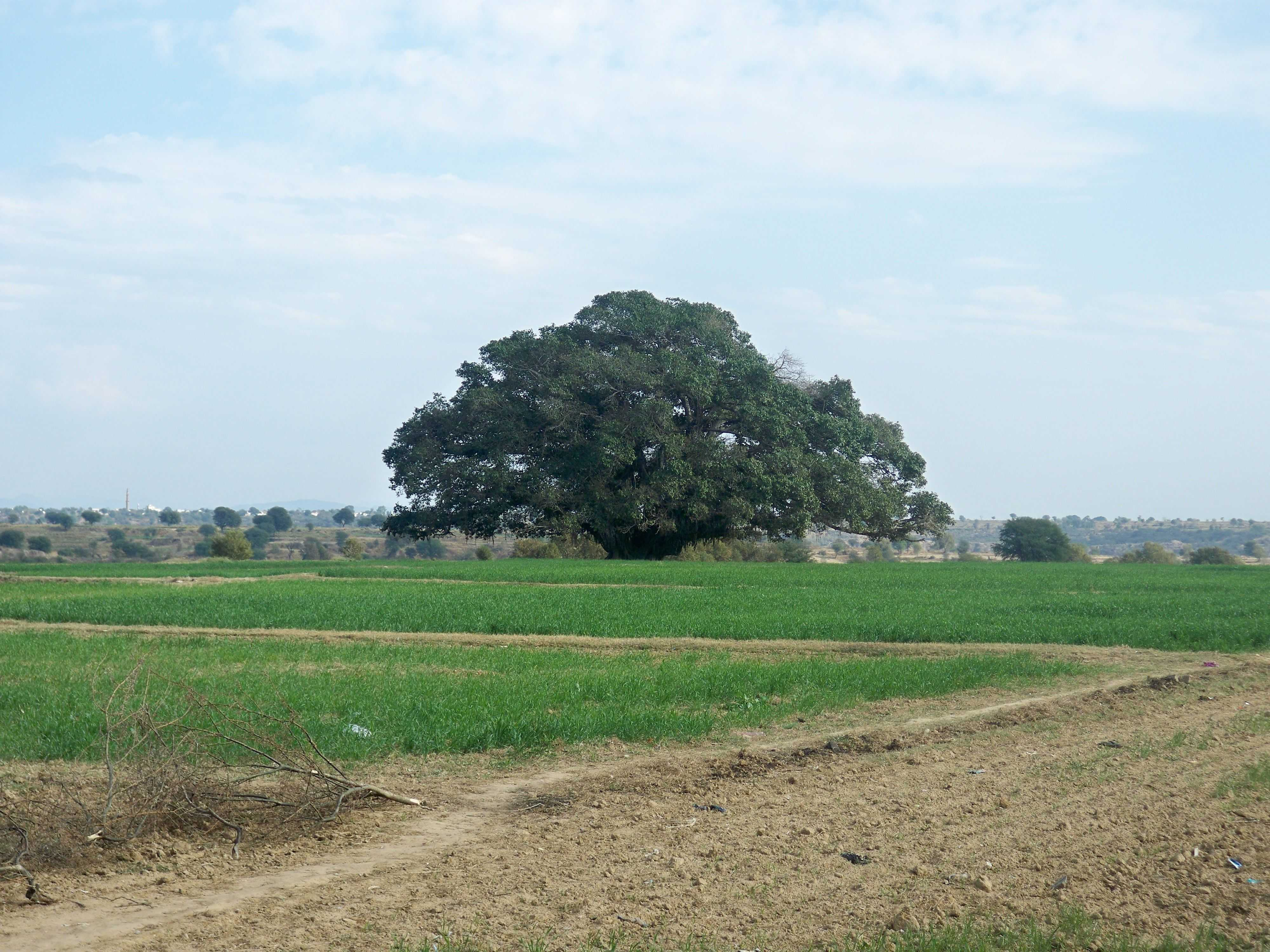 The Great Old Banyon Tree in Bhata